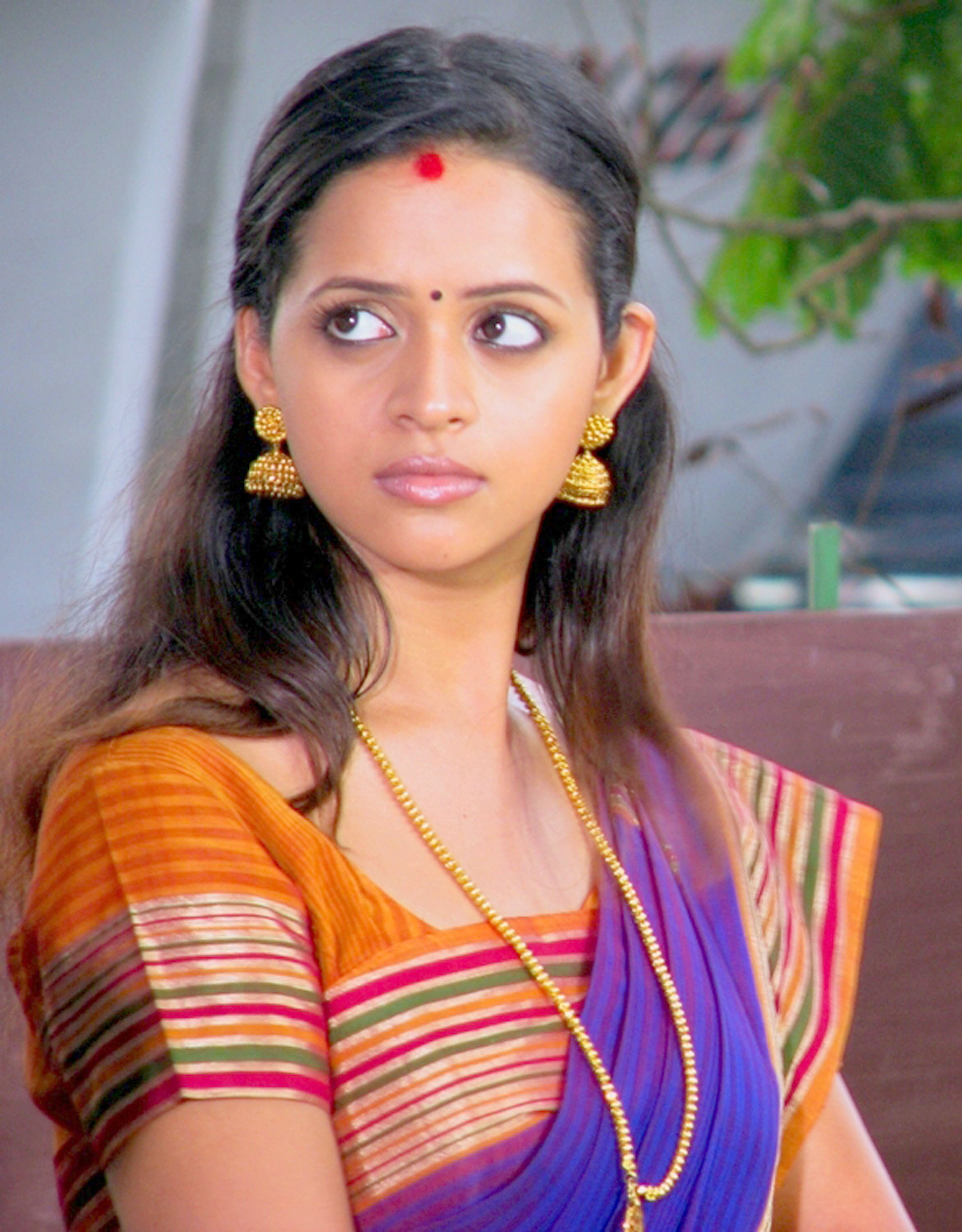 Bhavana Menon